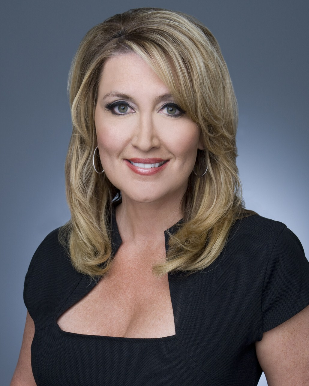 Wendy Burch KTLA Reporter